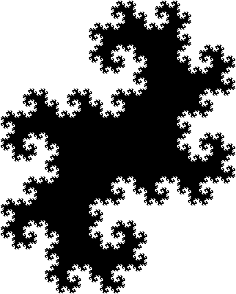 This is a set in the complex plane. There is a numeral system that base is -1+i there. The black place can be written in form of 0.XXX... in the numeral system this. The black place is a fractal resembling twindragon curve.